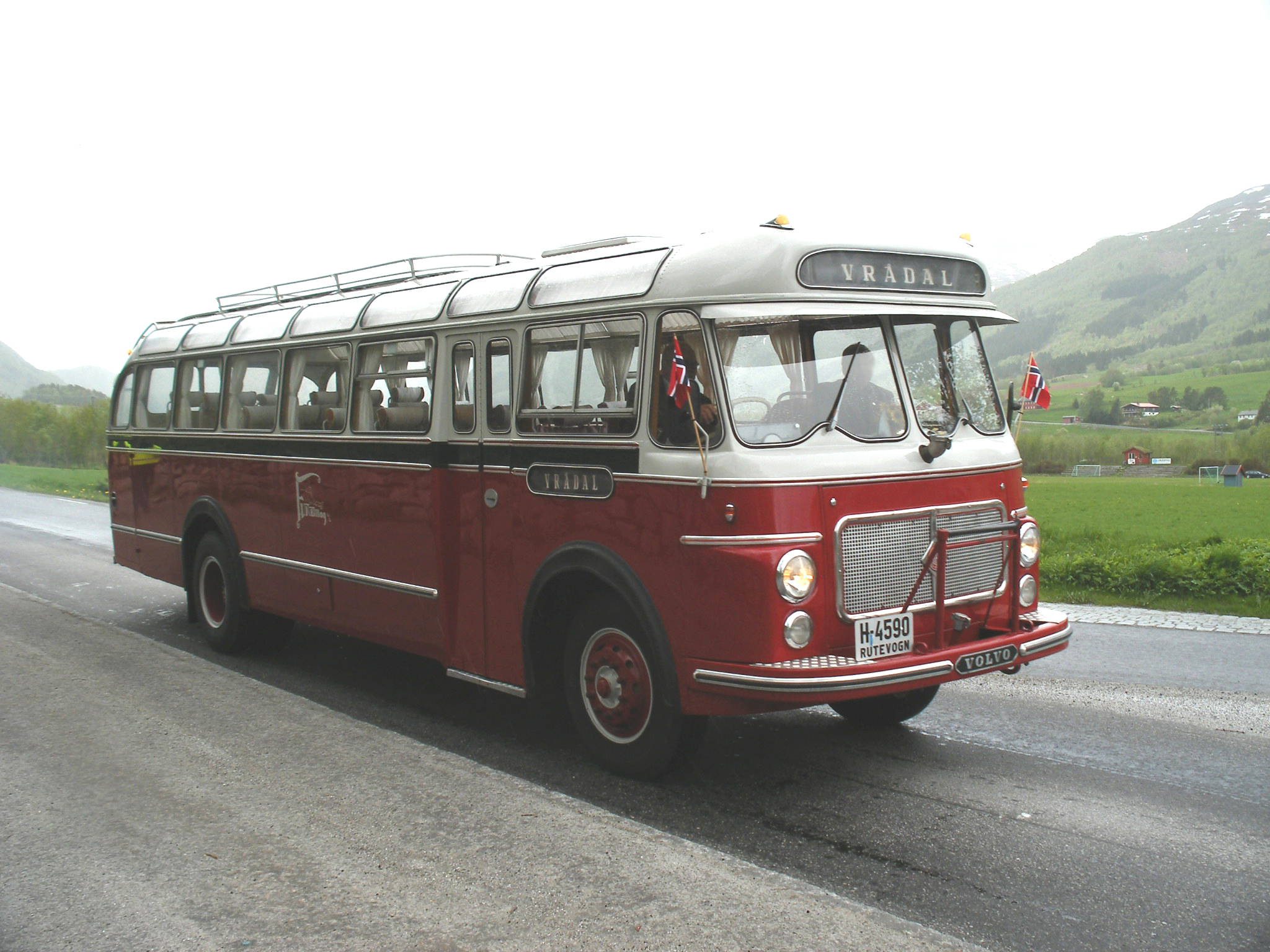 Old bus from Norway. Volvo B725 bus. Repstad body. Vrådal.